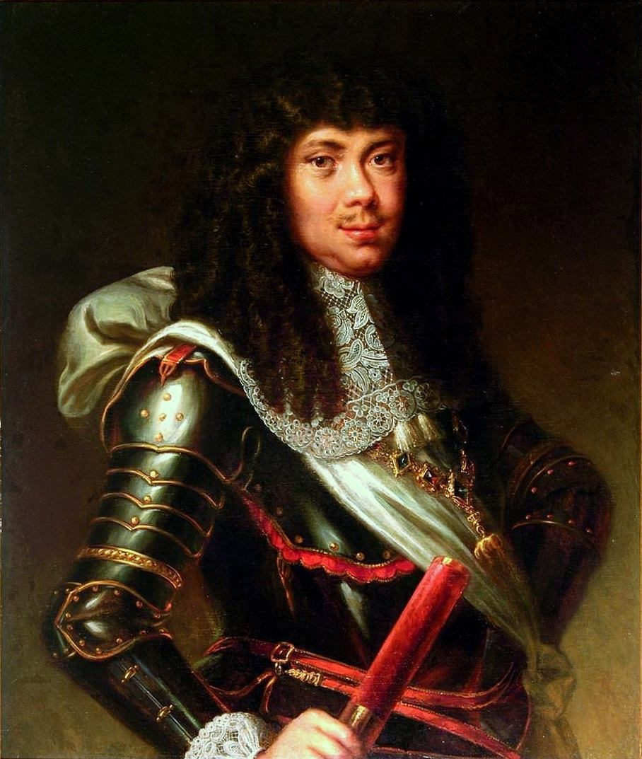 Portrait of Michał Korybut Wiśniowiecki (1640-1673)